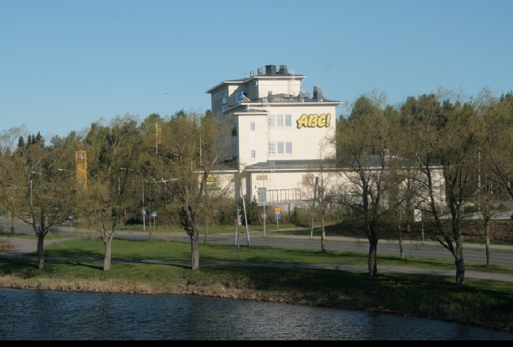 Siihtala ABC-station Joensuu